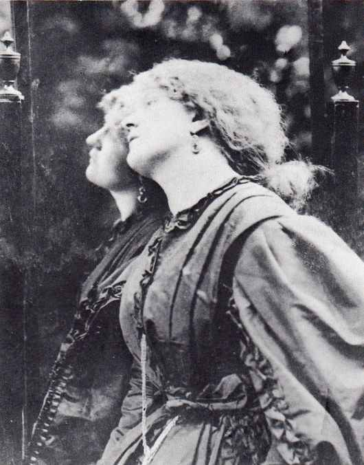 Fanny Cornforth Hughes (1824–1906) – Photography by W. & D. Downey, Newcastle (1863)